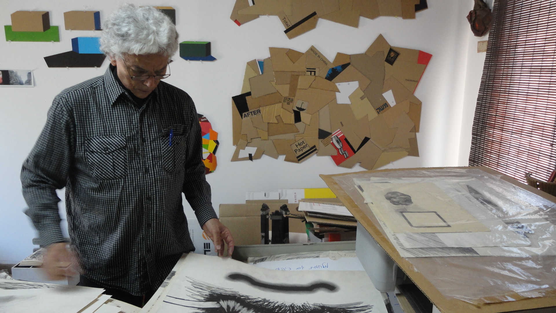 Avraham Eilat in his sudio, Ein Hod, 2013